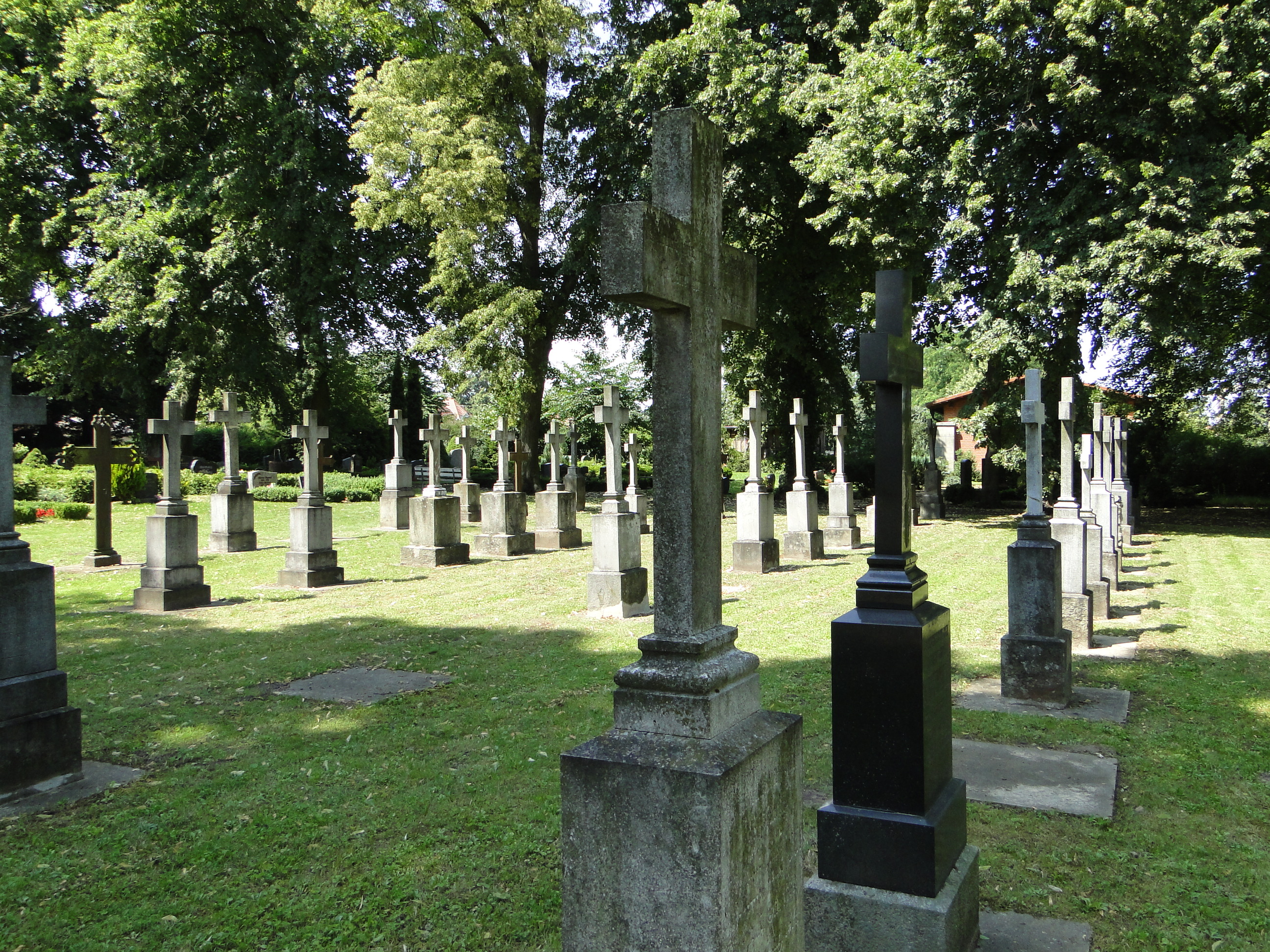 Cemetery of Monastery in Dobbertin, district Parchim, Mecklenburg-Vorpommern, Germany